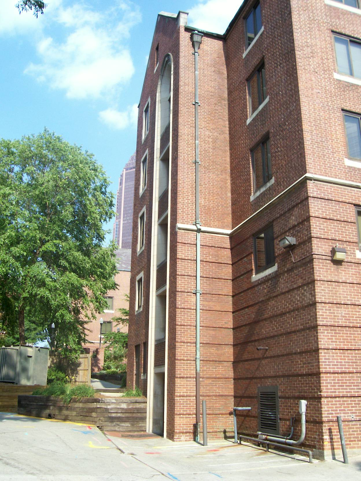 The Smith Hall Mine Shaft. The staircase begins on the -1/2 floor and ends on the 5th floor (attic) making the Mine Shaft the tallest staircase in any Georgia Tech Residence Hall at 5 and a half floors.